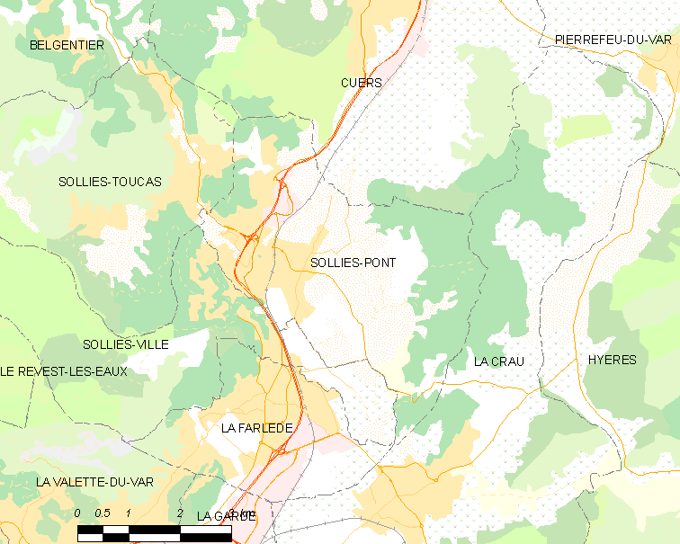 Map of French municipality Solliès-Pont